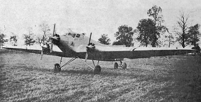 Couzinet 20 photo from Annuaire de L'Aéronautique 1931